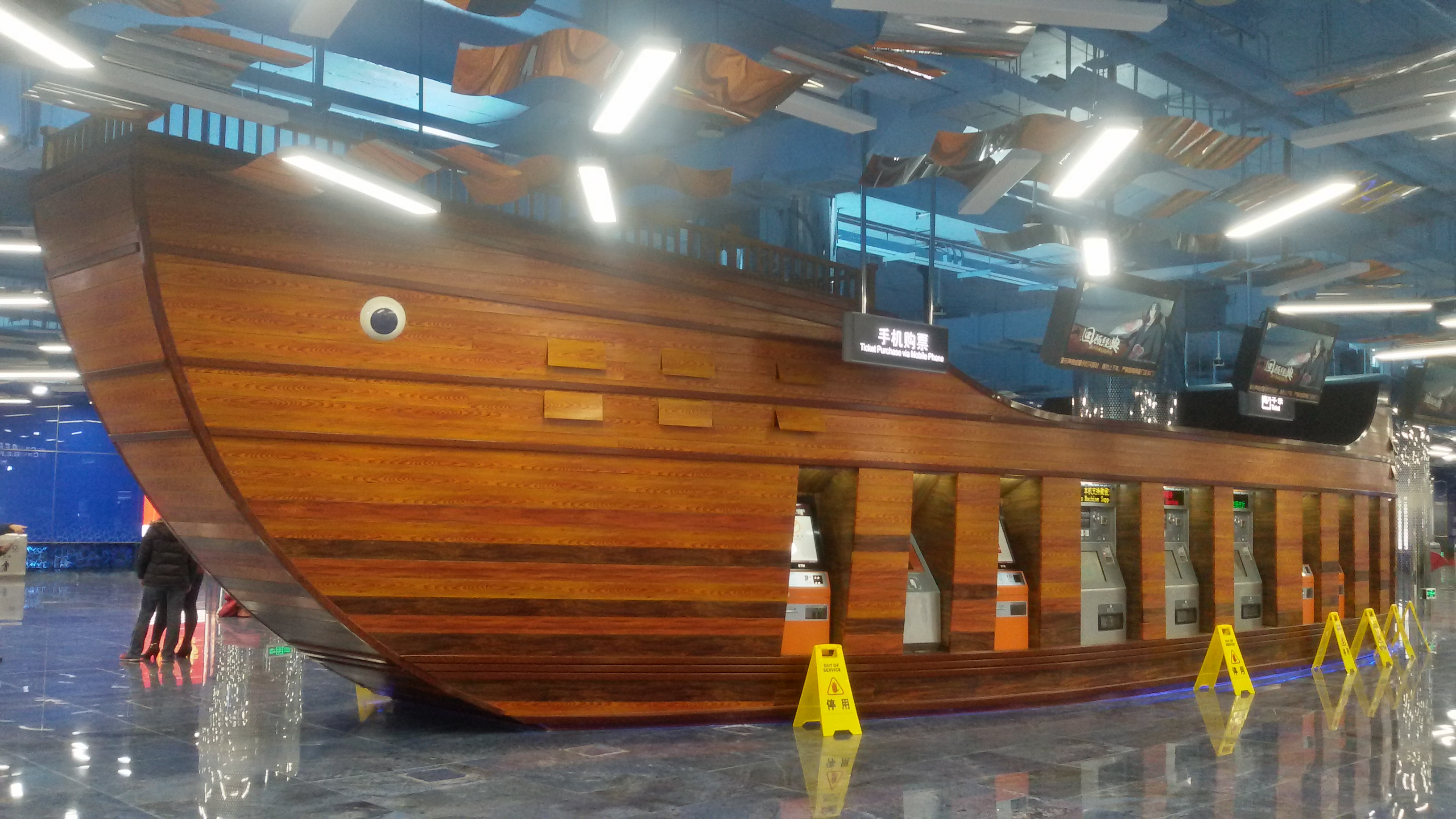 Decoration for a cruise liner at the concourse in Nansha Passenger Port Station, Guangzhou Metro.